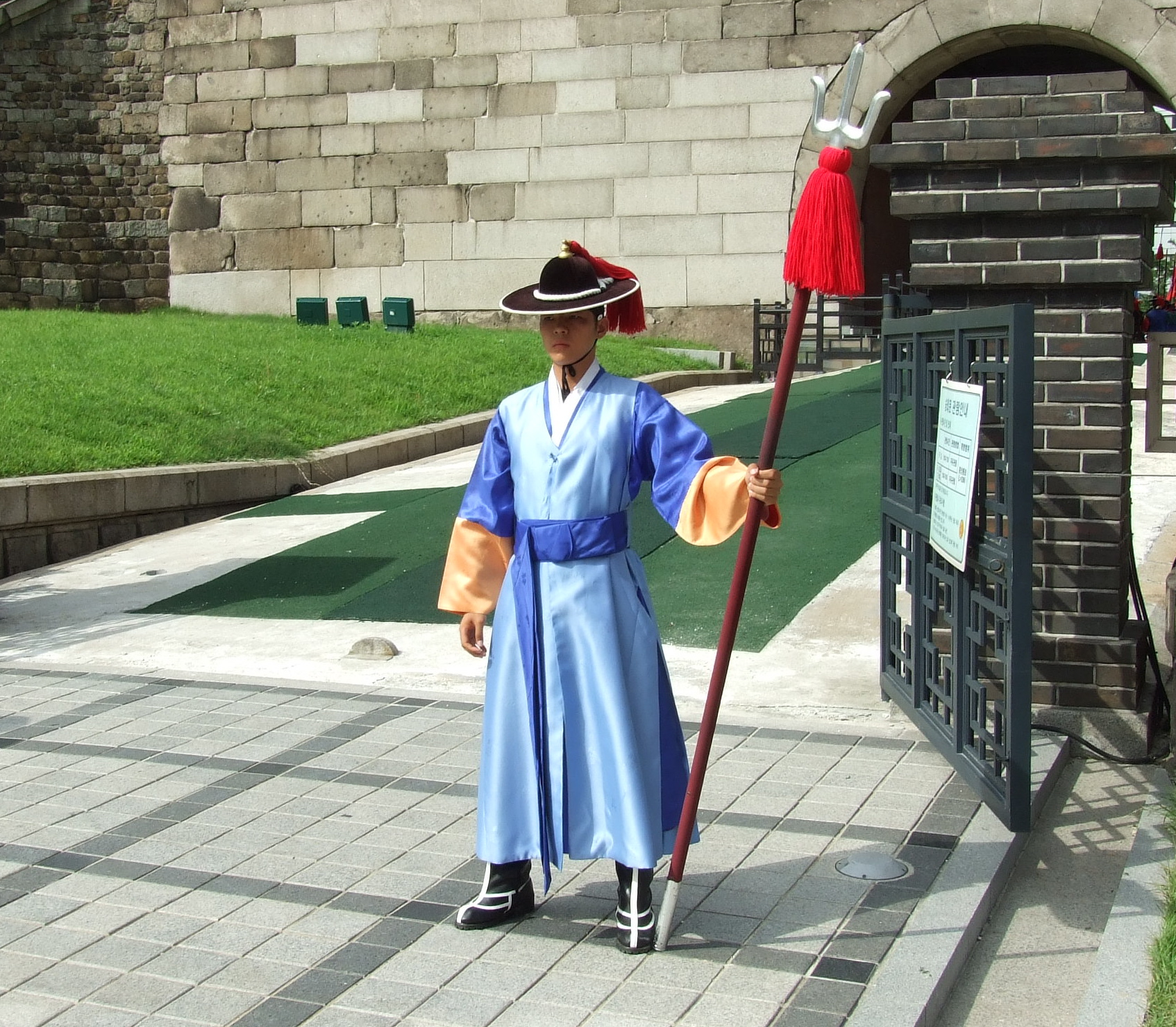 Korean guard standing at Namdaemun holding a dangpa (trident).